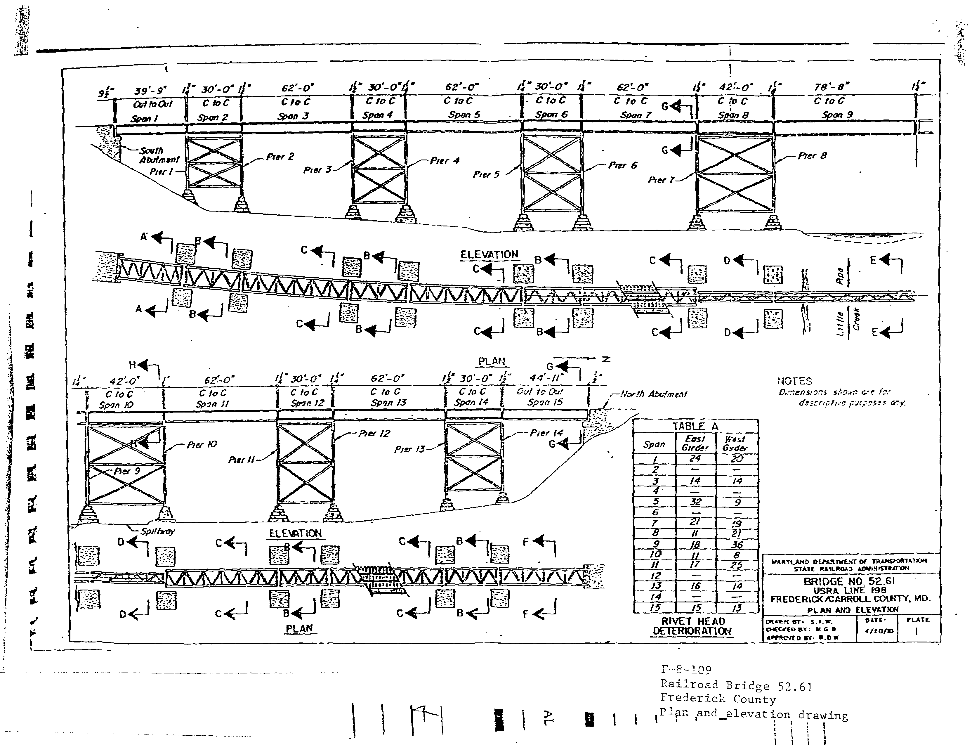 The Little Pipe Creek bridge and viaduct is a 705ft continuous truss bridge with main span and 19 viaduct sections as well as an active railroad trestle south of Keymar, Maryland. Originally constructed by the Frederick and Pennsylvania Line Railroad Company (F&PL). Construction on the trestle began in late 1871, and continued until April 1872. It was rebuilt by the Pennsylvania railroad in 1896 as an open deck riveted iron plate under girder bridge and then again in 1982-1989 by the Maryland State Railroad Administration. In 1991, it was surveyed as part of the Maryland Historic Sites Inventory.